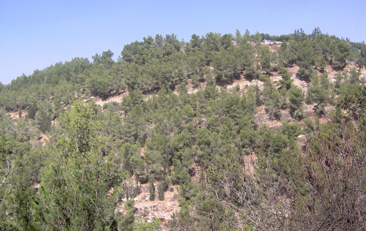 Jerusalem forest